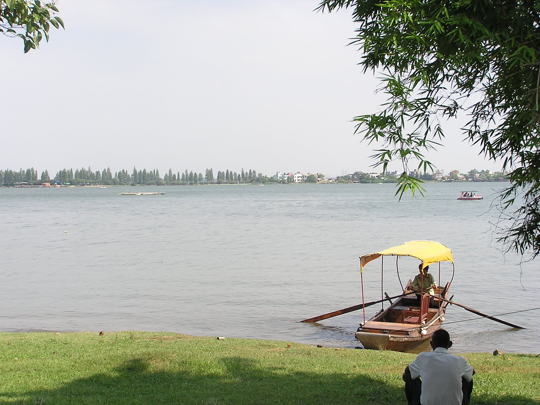 East Lake in Wuhan